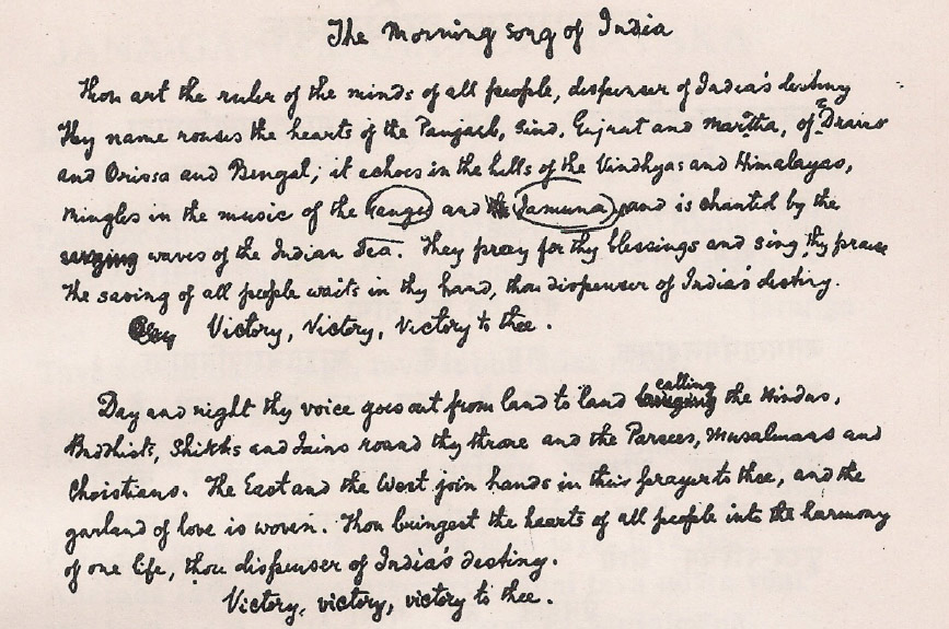 English translation of Jana Gana Mana by Tagore (part 1)